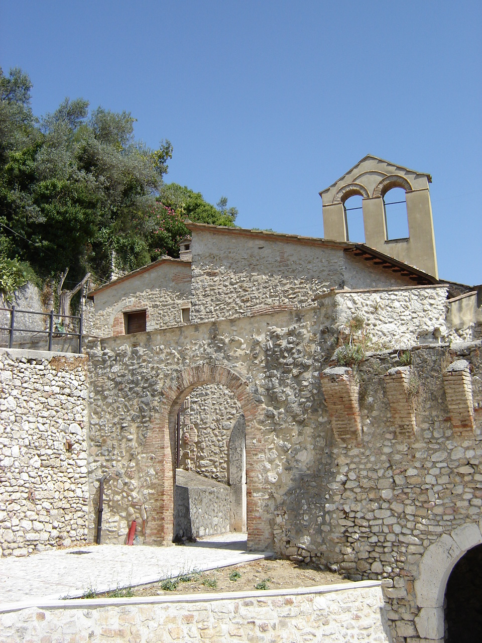 Gate of Rocca San Zenone (Terni, Italy) and partial view of Saint John Church